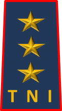 Vice Admiral rank insignia that used on daily uniforms of Indonesian Navy (holder of command)